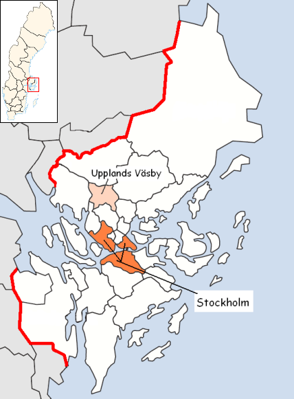 Upplands Väsby Municipality in Stockholm County Designed by me. Mere outlines are a PD source from